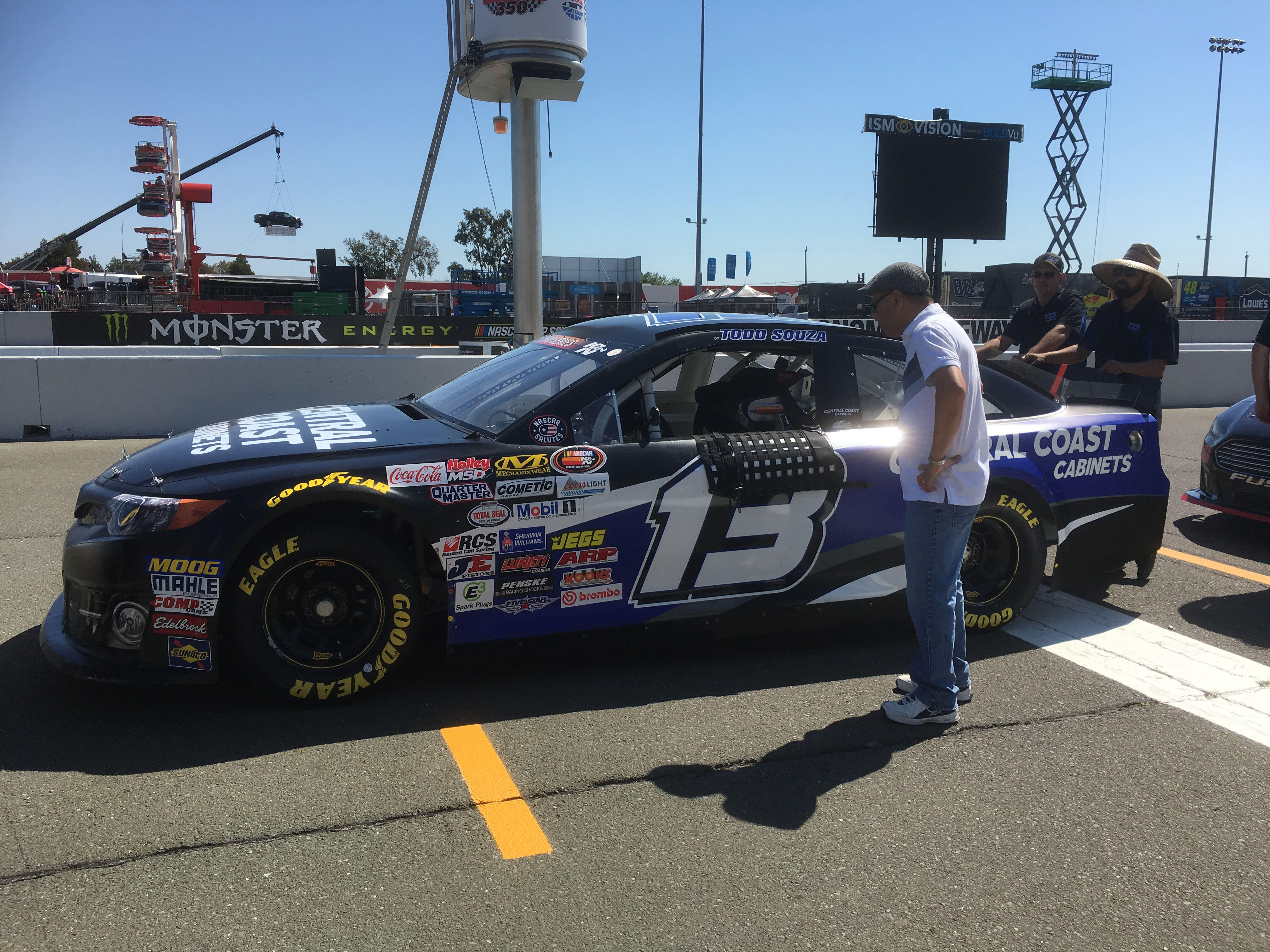 Todd Souza's No. 13 car at the 2017 Carneros 200.